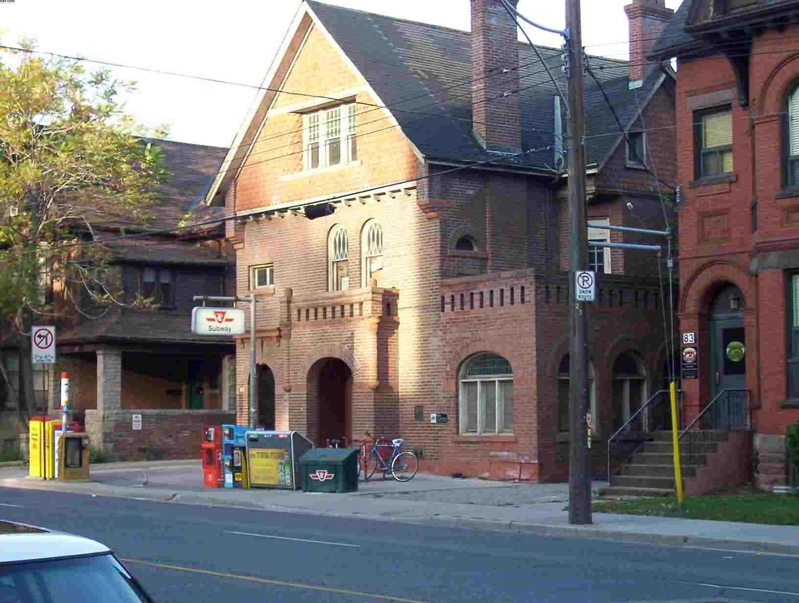 The Kendal Avenue entrance to Spadina station retains the exterior of the house that was previously on the site